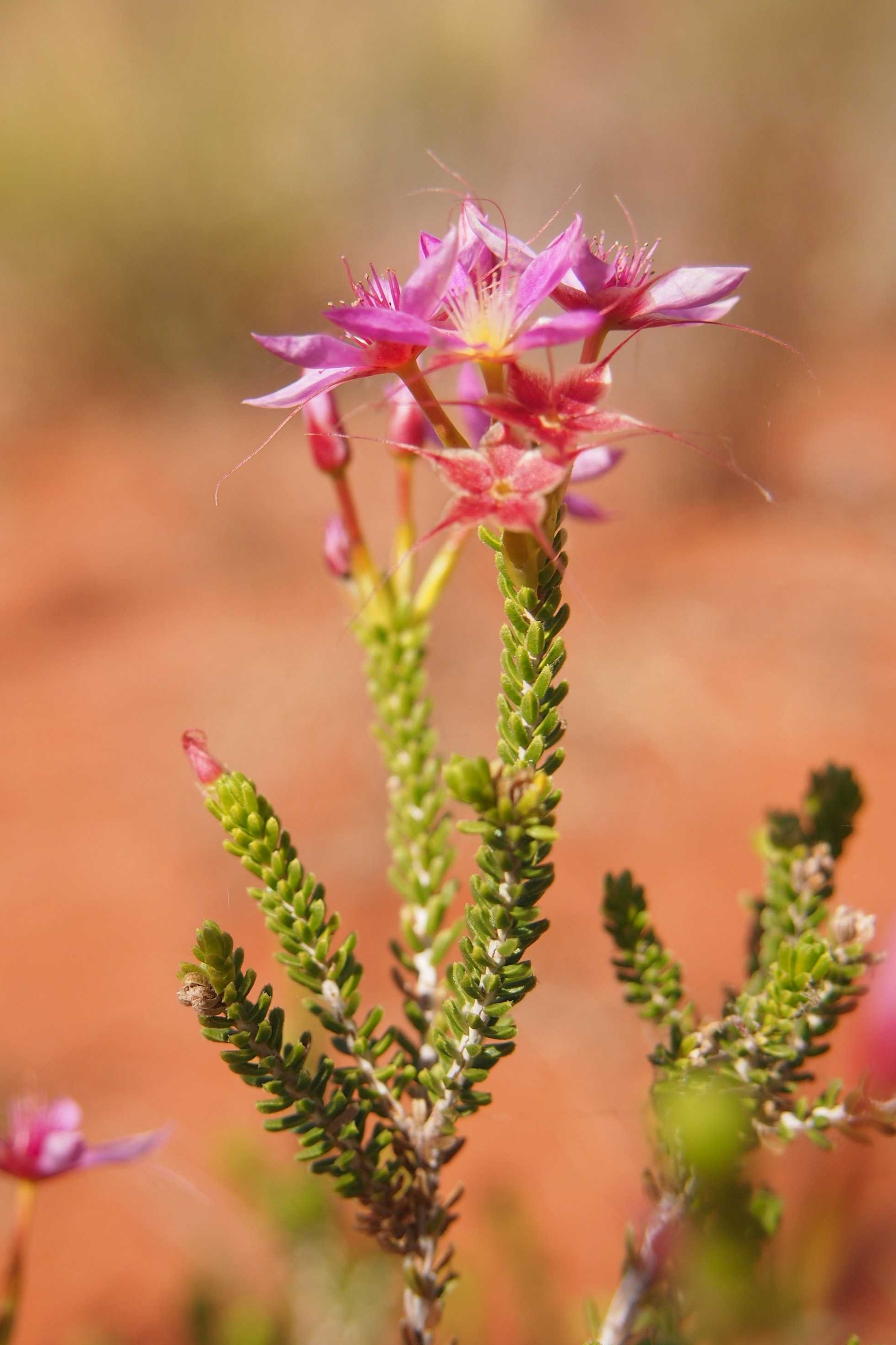 Calytrix longiflora flowers and foliage